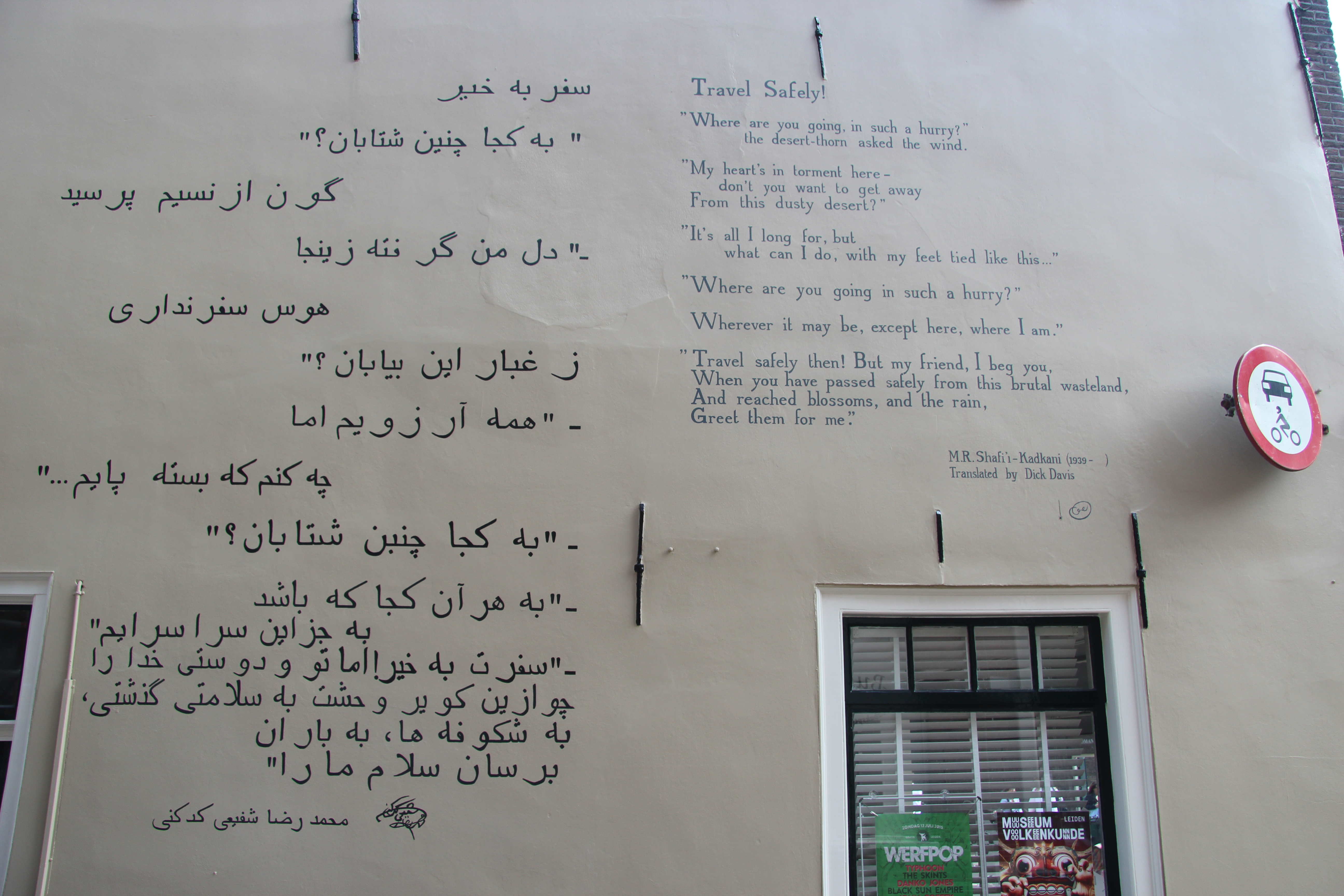 Wallpoem by Mohammad-Reza Shafiei Kadkani with translation as 'Travel Safely' painted in the Clarensteeg in Leiden, the Netherlands. Unveiled Thursday June 4 2015 by Asghar Seyed-Gohrab and signed in person by the poet.